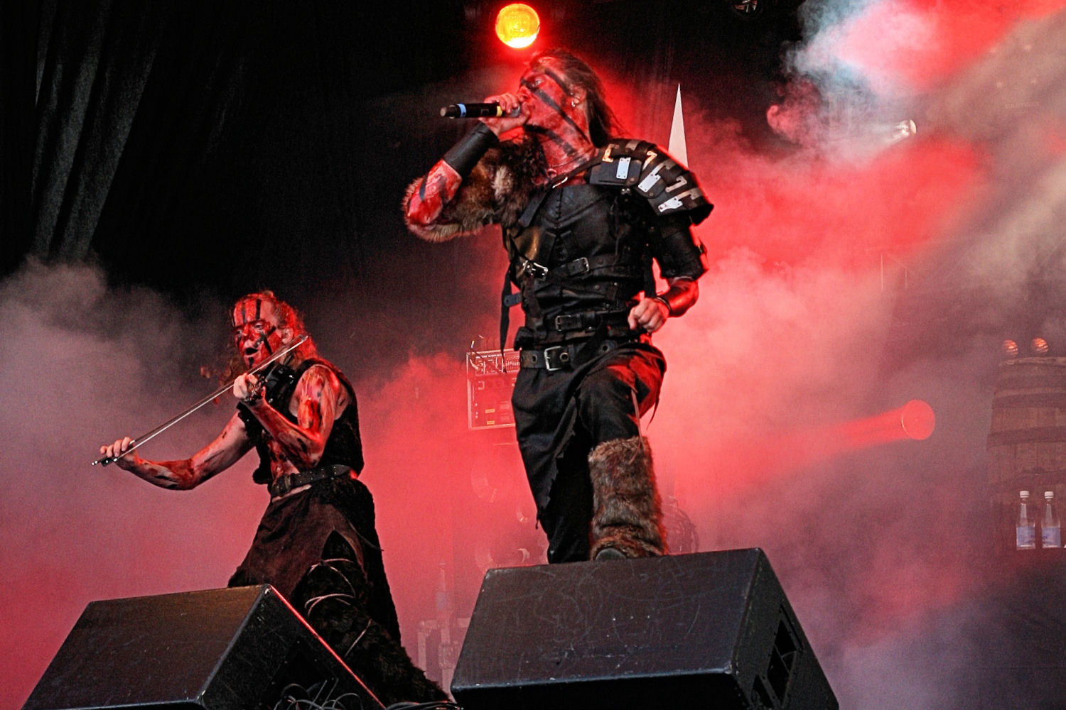 Turisas Performing at Ilosaarirock 2008.